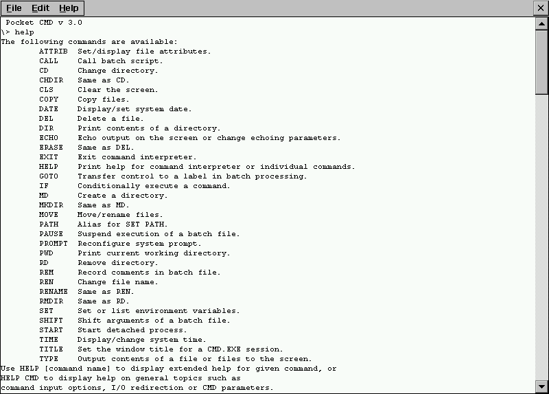 Microsoft Windows CE Version 3.0 (Build 126) cmd.exe Command Prompt